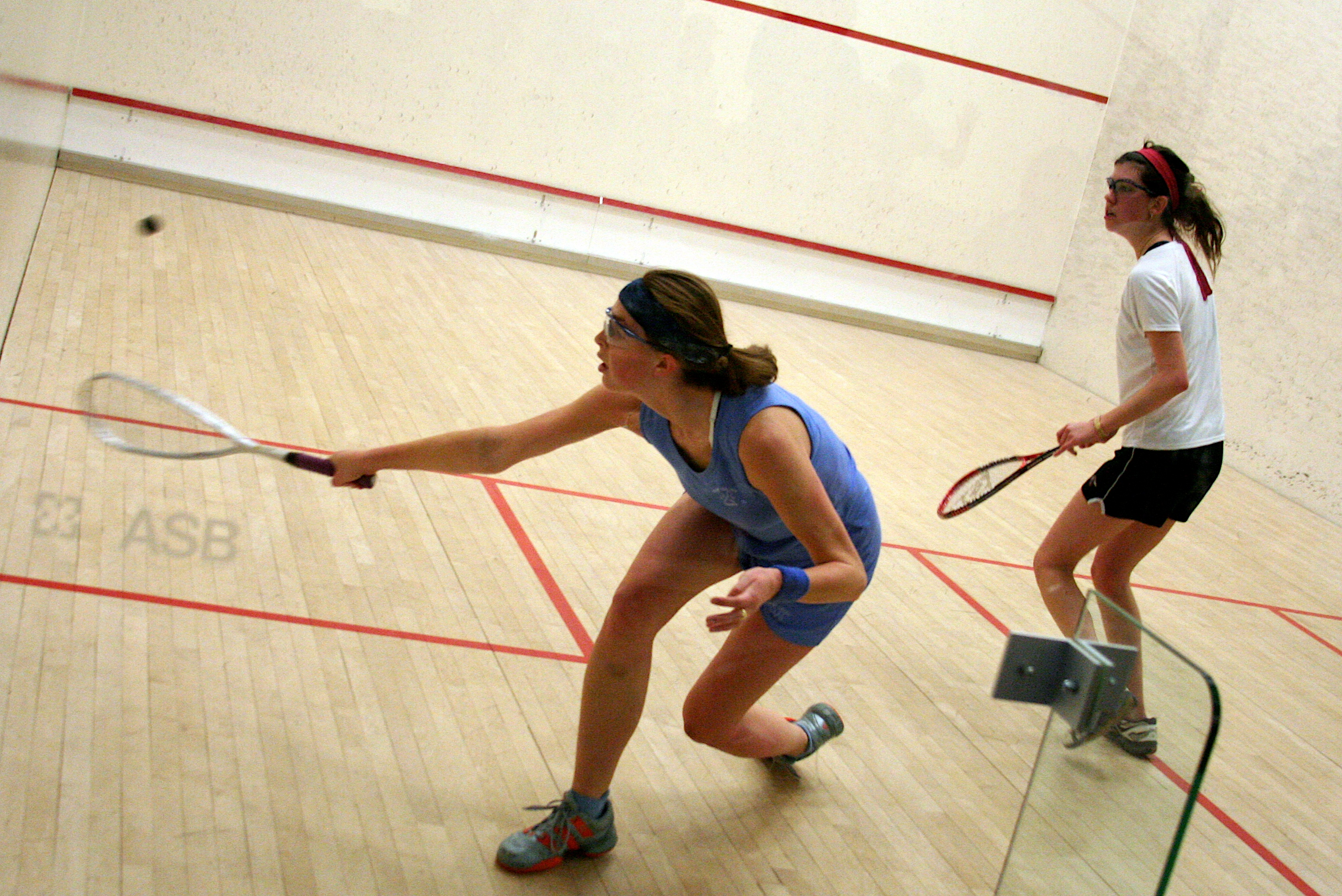 A squash match at Massachusetts Institute of Technology.